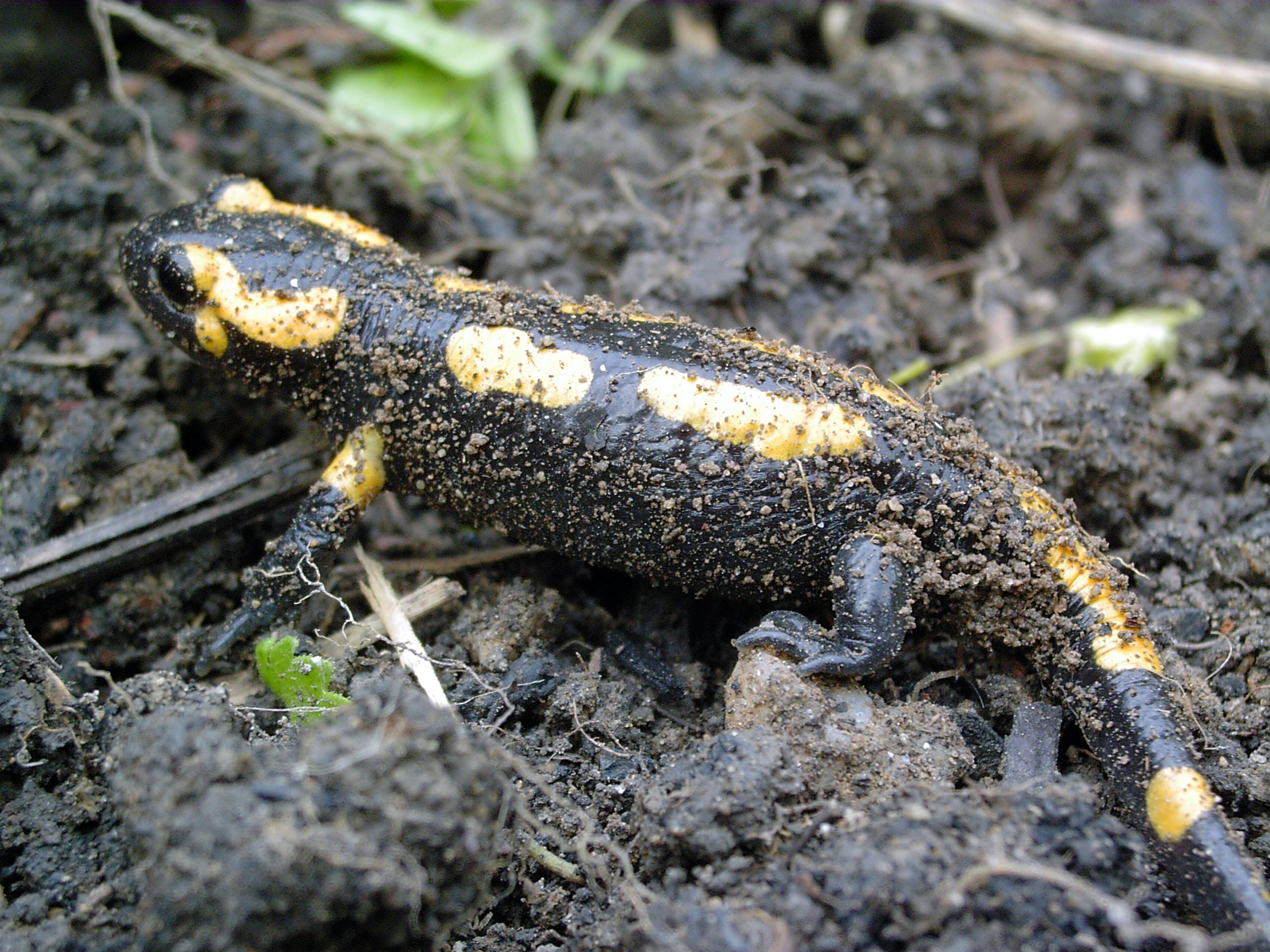 Fire Salamander.